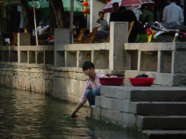 A women washing clothes in a canal. Zhouzhuang Jiangsu China